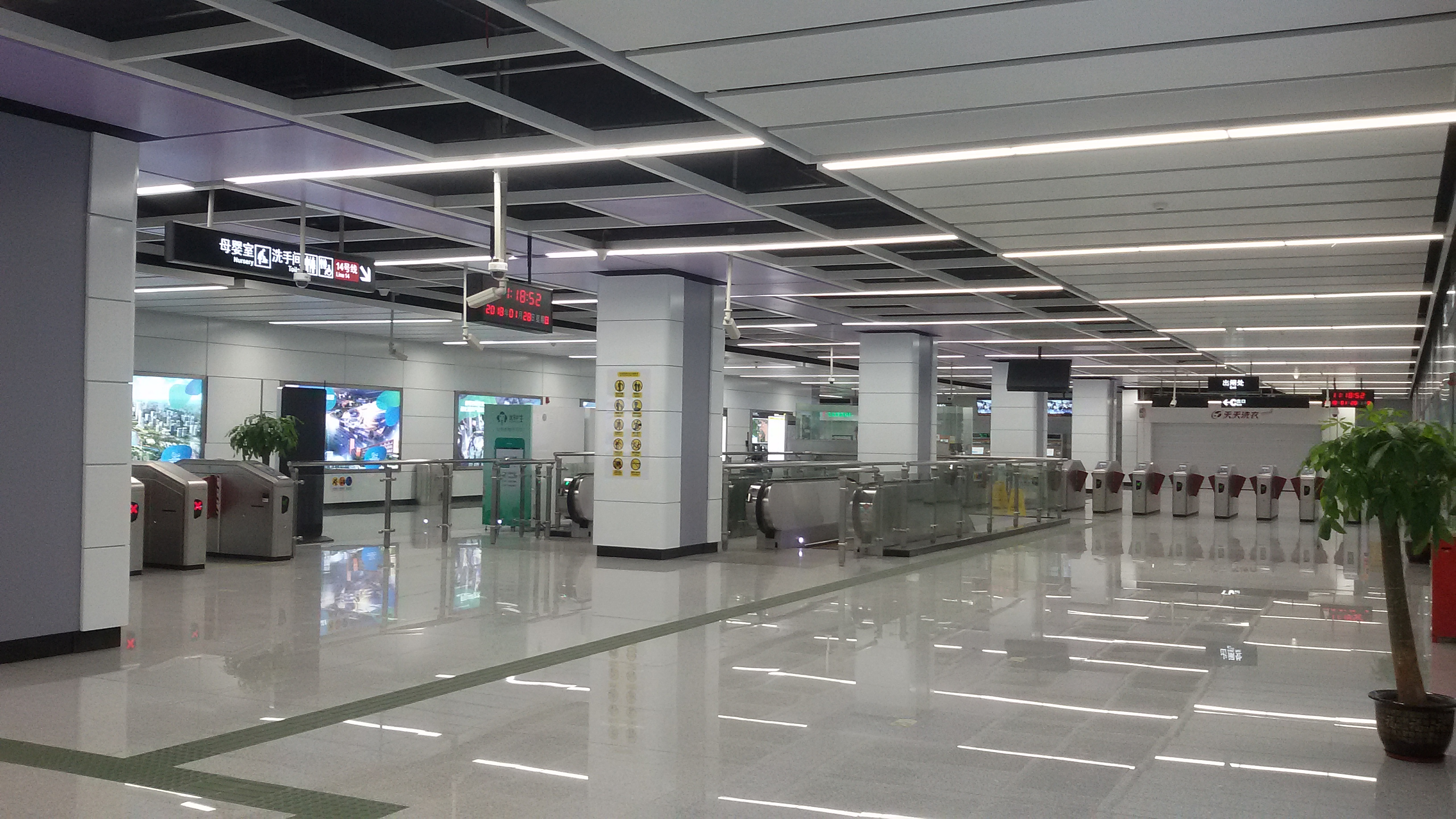 Station Concourse for Hetangxia Station in Guangzhou Metro.